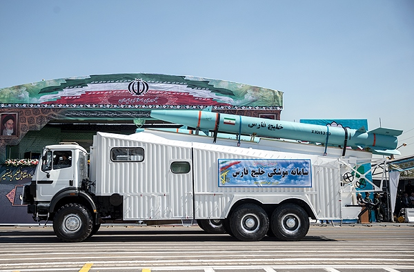 IRGC-N Khalij Fars (“Persian Gulf”) anti-ship ballistic missile on launch control vehicle during Iran's Sacred Defense Parade 2015 - Tehran. see [1]